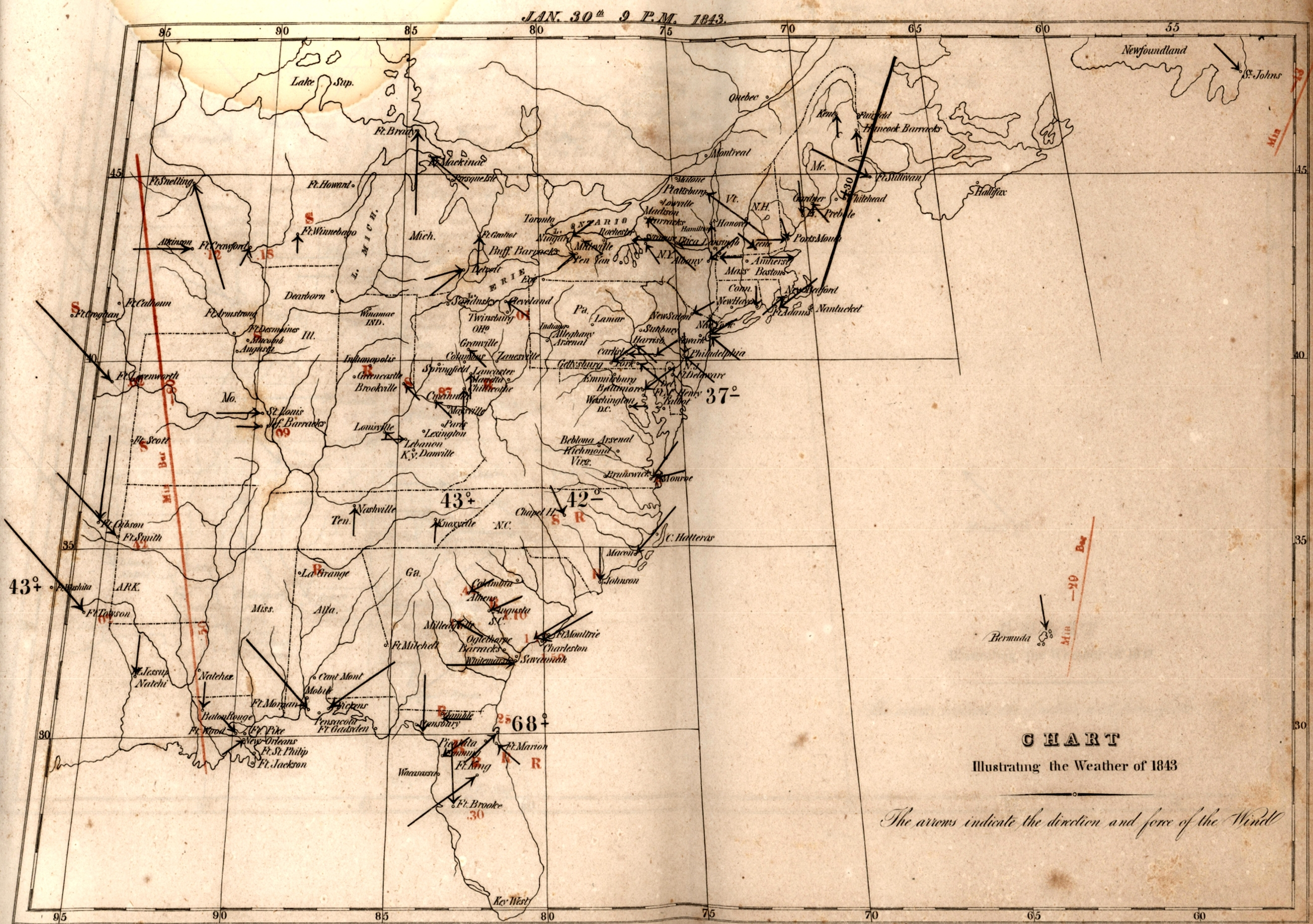 Oldest series of weather maps in the United States. January 30, 1843. Produced by James Pollard Espy. In: First Report on Meteorology, to the Surgeon General of the United States Army. October 9, 1843. Image ID: wea05013, NOAA's National Weather Service (NWS) Collection